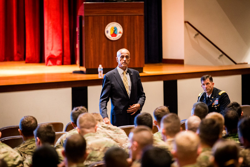 Retired Maj. Gen. Bernard Loeffke speaks during a Combat Leader Speaker Program to lieutenants and captains in the Maneuver Captain's Career Course about the importance of selfless service and open communication with our allies and enemies alike.